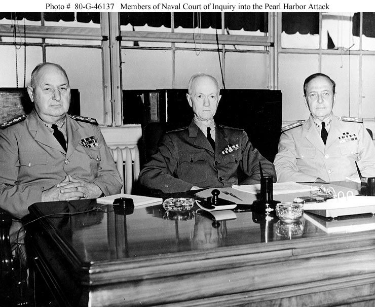 Members of the Navy Court of Inquiry, at the Navy Department, Washington, D.C., during a session of their examination of the circumstances of the attack. In the center is Admiral Orin G. Murfin, USN (Retired), President of the Court. Admiral Edward C. Kalbfus, USN (Retired) is at left, and Vice Admiral Adolphus Andrews, USN (Retired) is at right. The photograph was released on 24 July 1944. Official U.S. Navy Photograph, now in the collections of the National Archives. from [1]